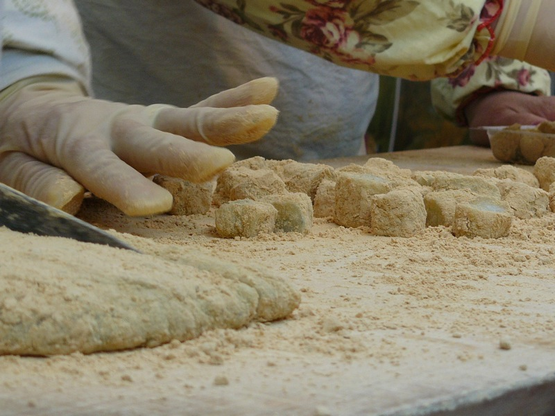 Slicing the lump of tteok (Korean rice cake) into making injeolmi (인절미)